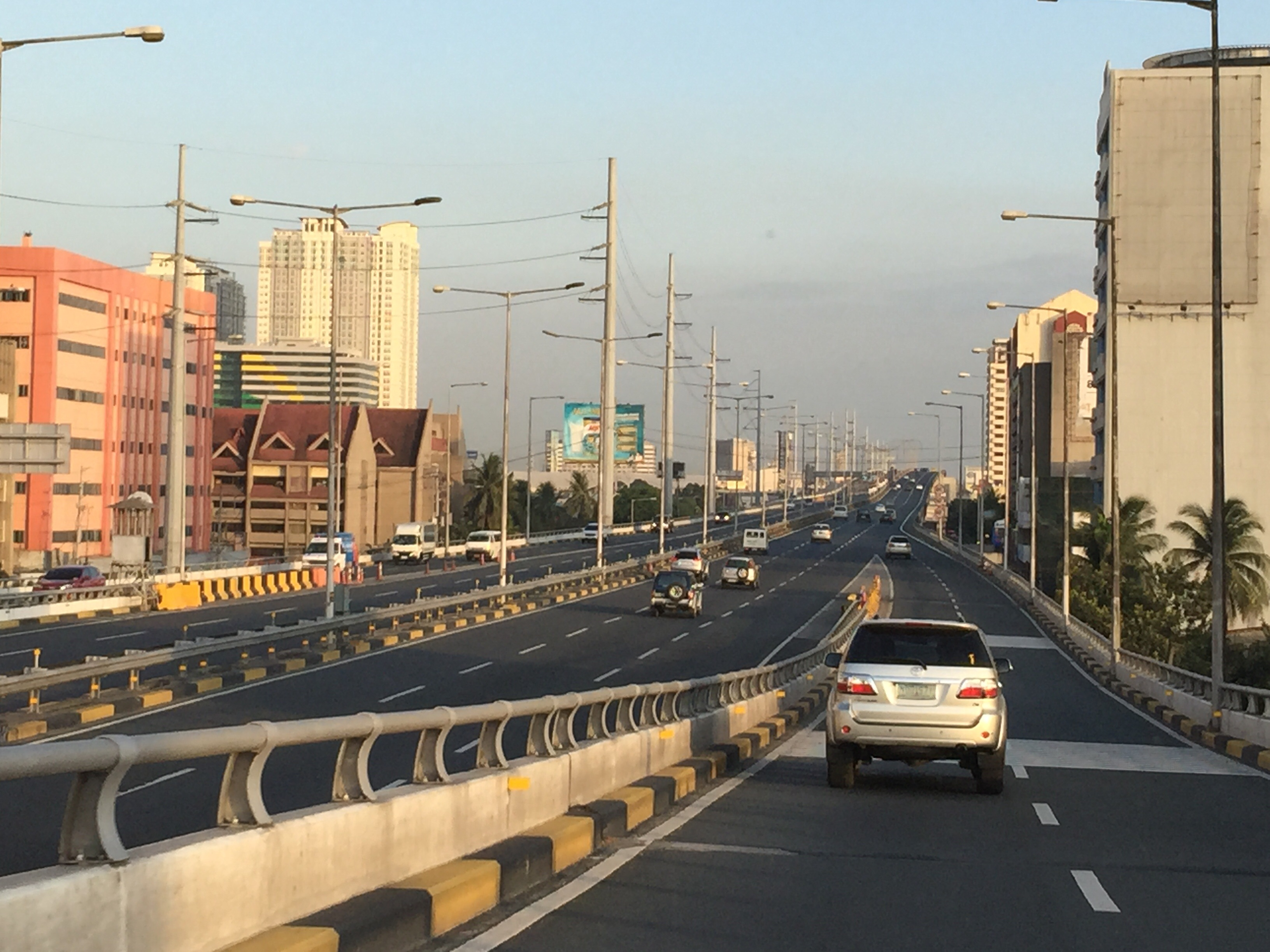 The Metro Manila Skyway at the Amosolo on ramp looking south towards Magalles in Makati, Metro Manila, Philippines